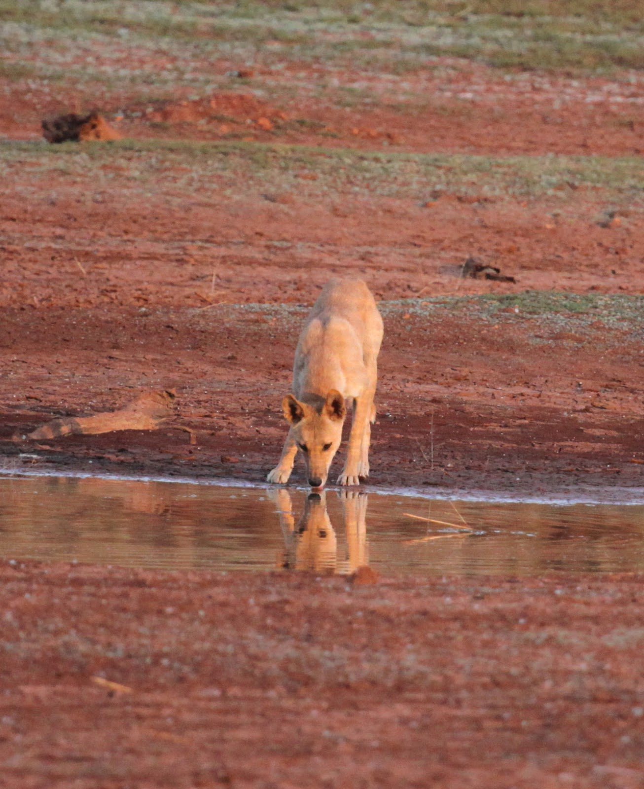 Australian Dingo (Canis lupus dingo), Northern Territory, Australia